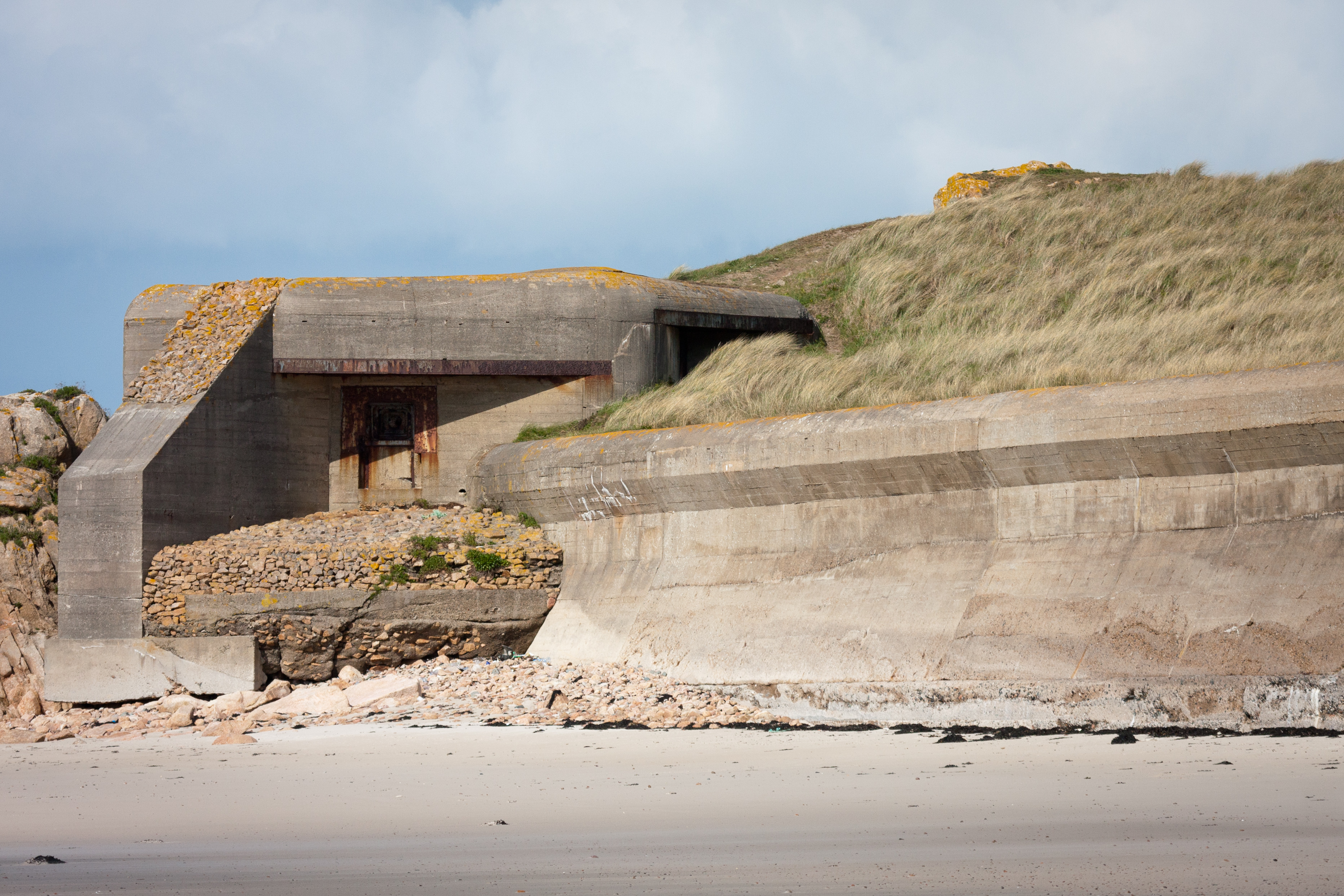 A bunker and sea wall in St. Ouen's Bay, Jersey.